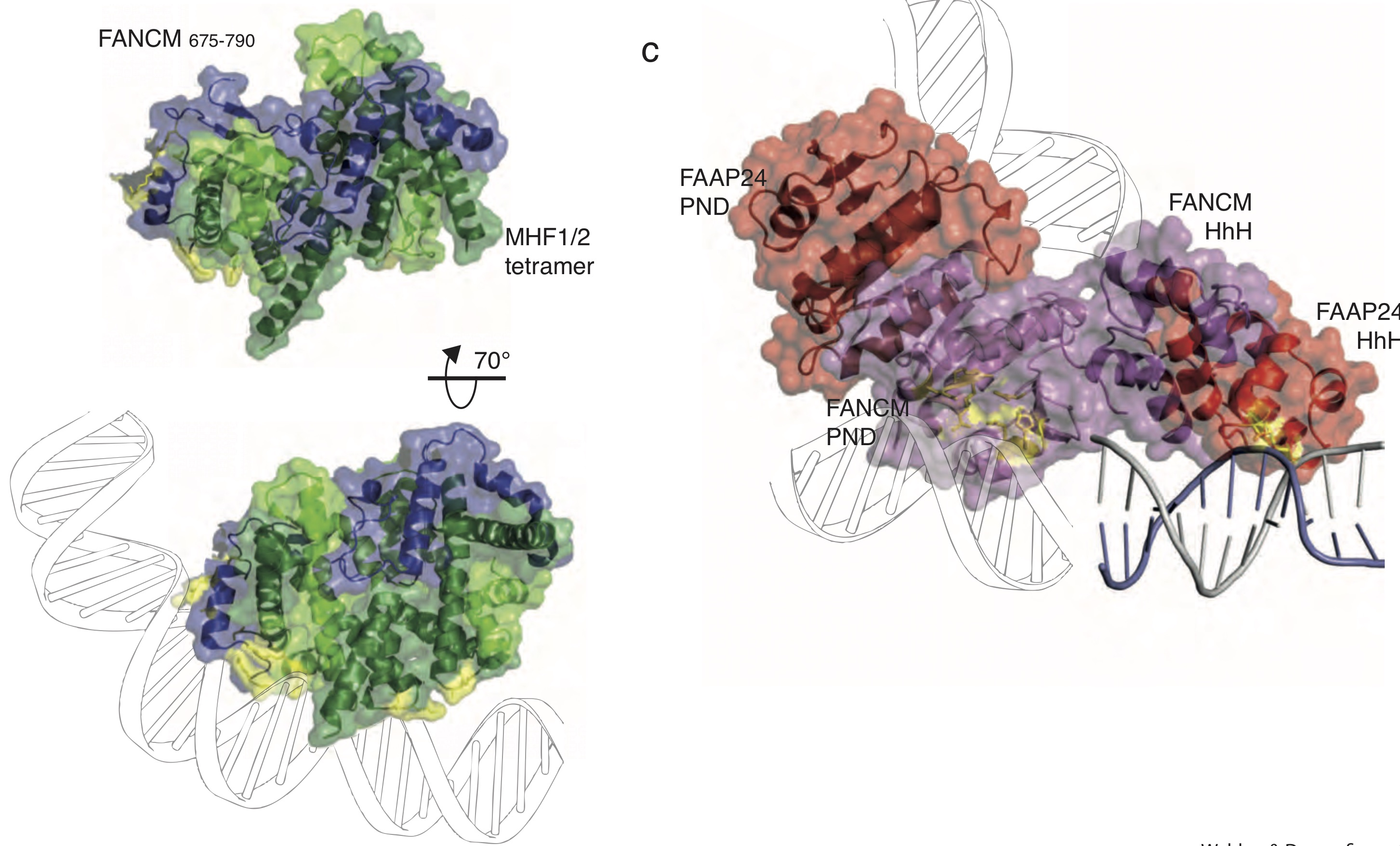 Crystal structures of different parts of FANCM reveal how the protein engages DNA during repair of damage